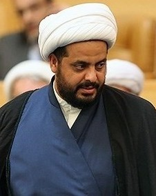 Qais Khazali At the Closing of the the Worldwide Conference on Lovers of Ahl al-Bayt and the Takfiris issue in Tehran- November 2017